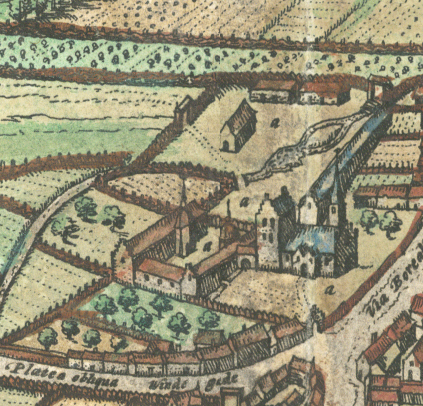 Detail of engraving of Odense from Braun & Hogenberg: Civitates Orbis Terrarum 1593.